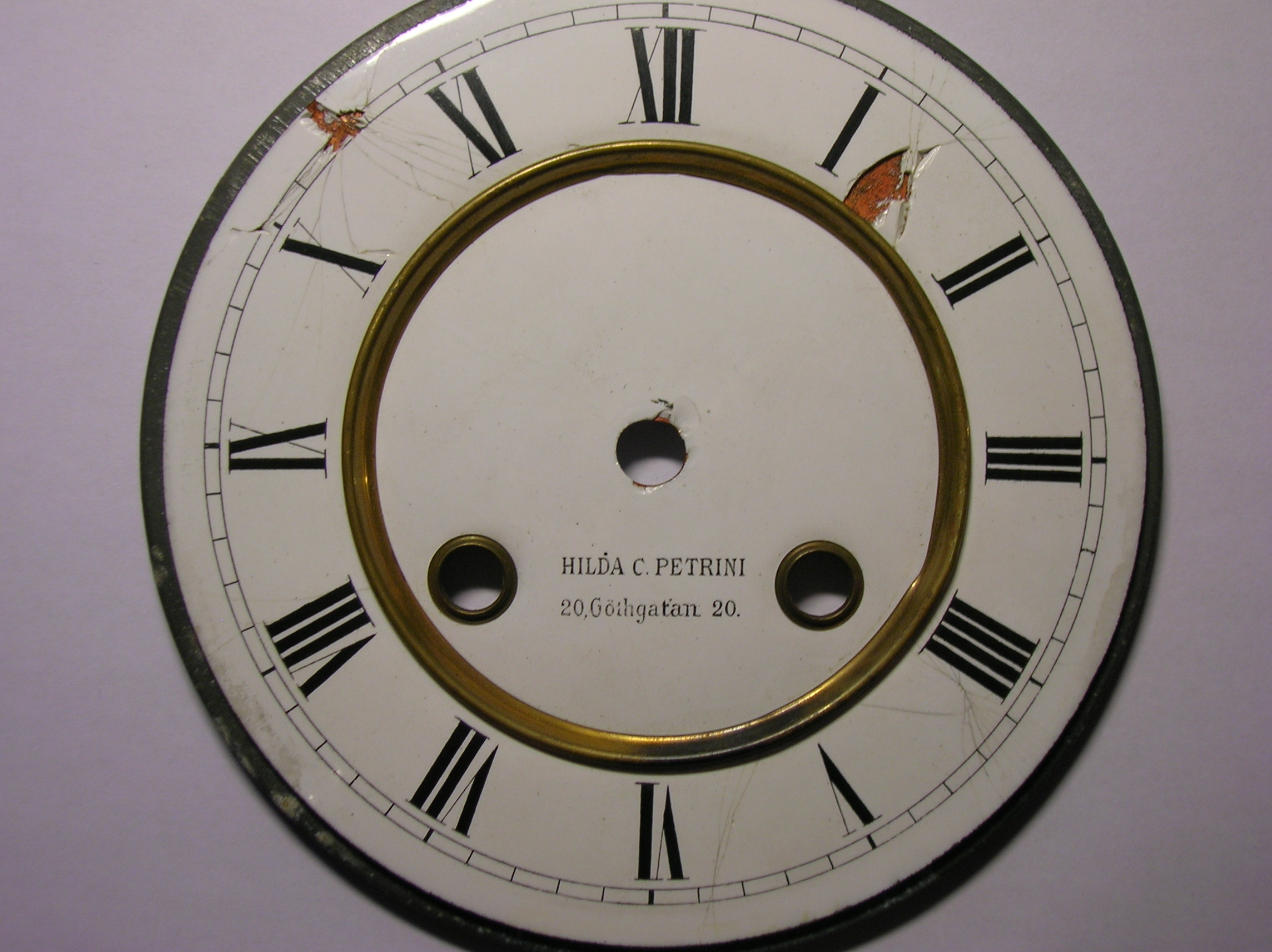 Clock dial signed Hilda C. Petrini, Göthgatan 20.